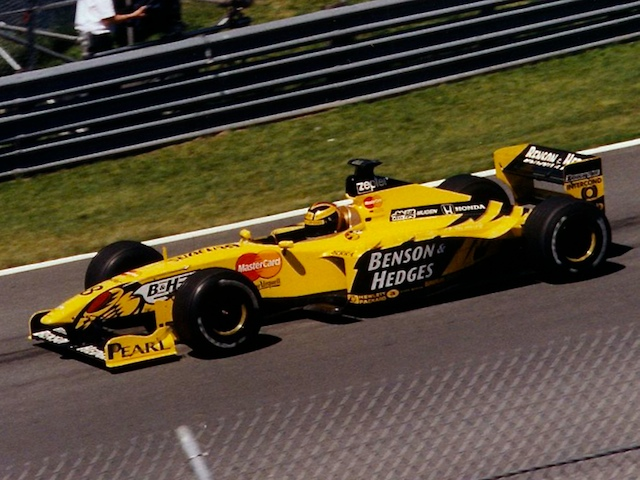 Heinz-Harald Frentzen driving for Jordan Grand Prix at the 1999 Canadian Grand Prix.